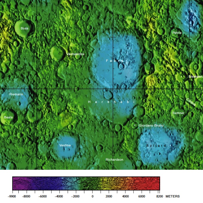 Part of the USGS Far side lunar map is used for the presentation